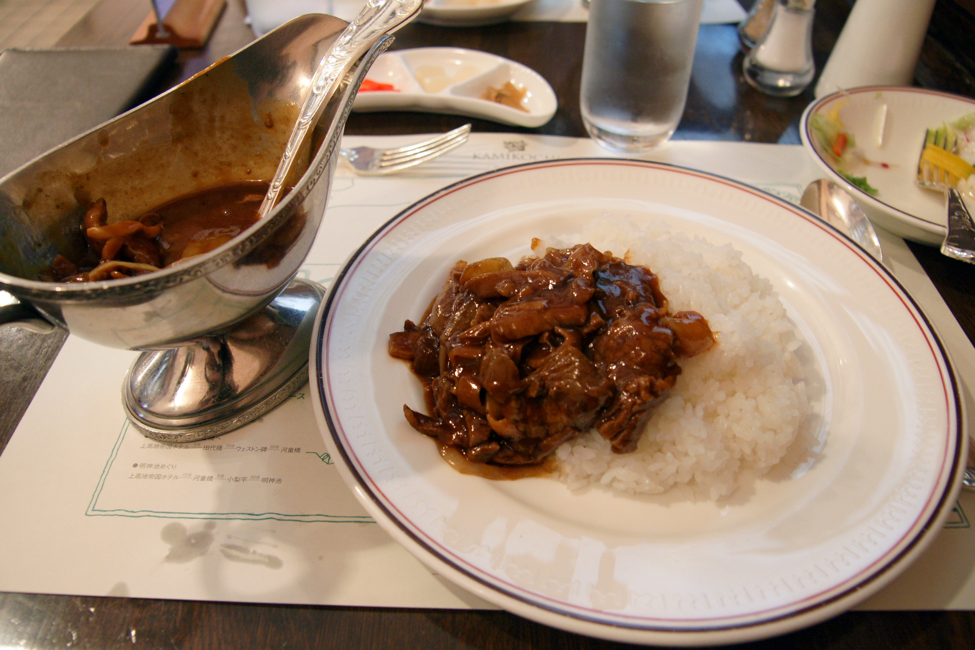 at Kamikochi Imperial Hotel in Kamikochi, Matsumoto, Nagano prefecture, Japan